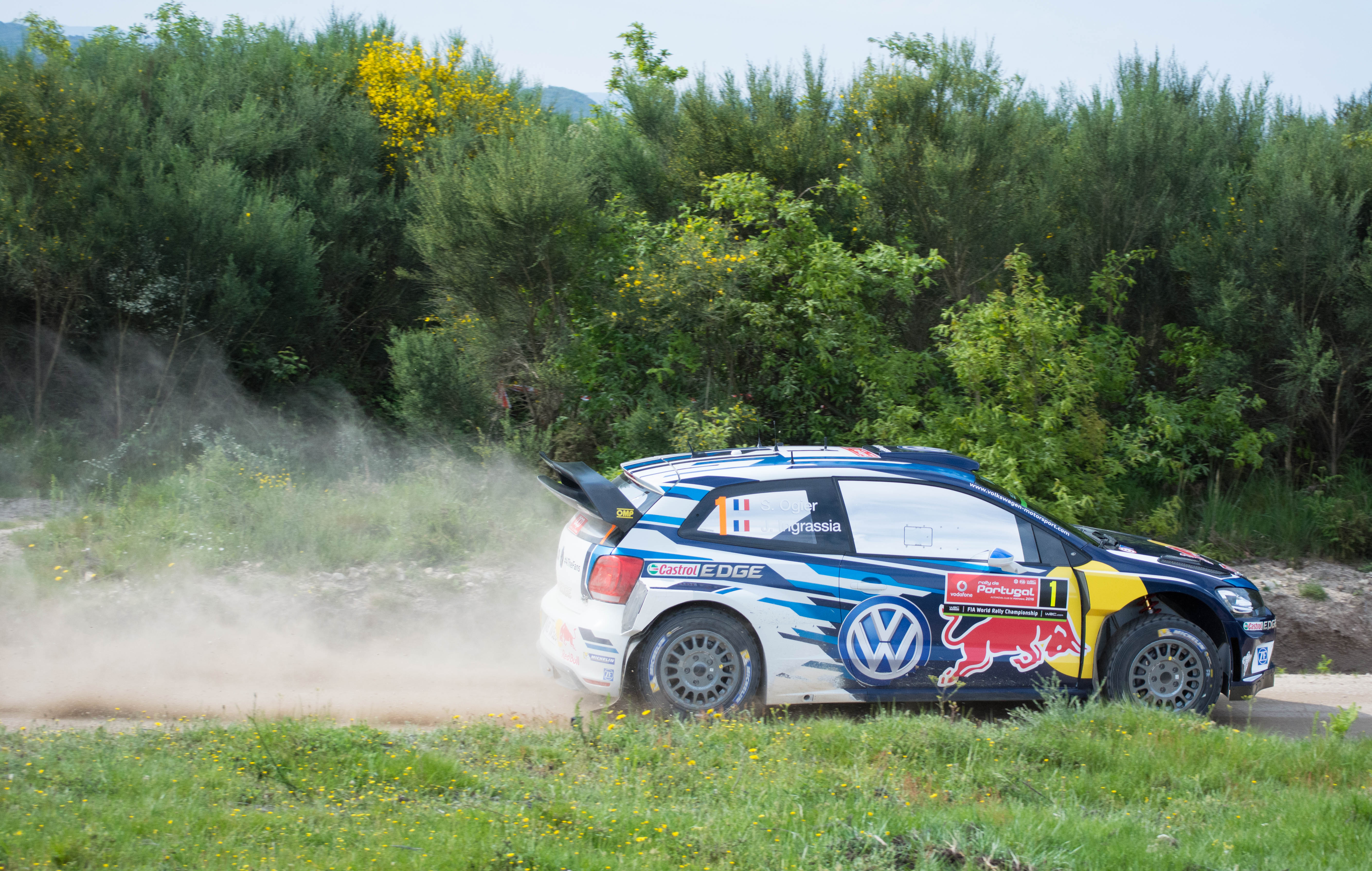 Rally of Portugal 2016. Section of "Baião", on the first pass